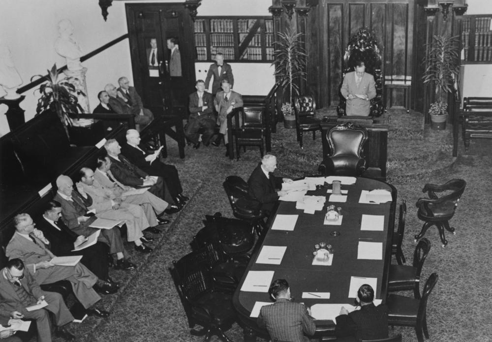 Commonwealth Parliamentary Association delegates, Sydney, 1953. Opening of the Commonwealth Parliamentary Association Conference in the Legislative Council Chamber in Parliament House, Sydney.